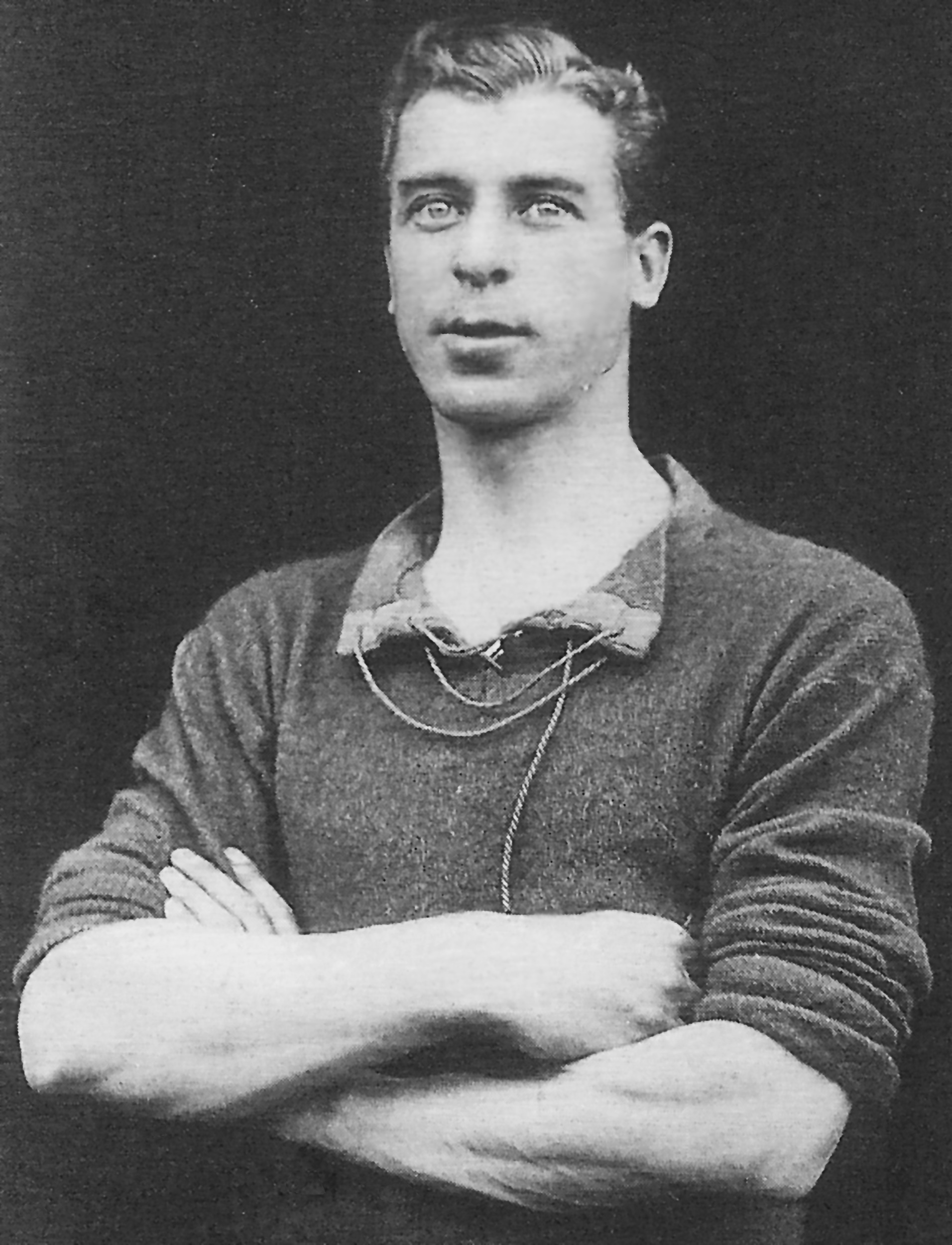 Johnny Campbell played for Tranmere Rovers, at right-back, from 1914 to 1929 but never became a professional, preferring to retain his amateur status. Despite the handicap of a bullet embedded in his skull, he lived to the grand age of eighty-seven and it was his proud boast to have never been cautioned or send off. Three contemporary sources, written by Tranmere Rovers historians, contain this image: Bishop, Peter (1 November 1998) Tranmere Rovers Football Club, Images of England, Stroud: Tempus ISBN: 978-0752415055. Upton, Gilbert; Wilson, Steve (November 1997) Tranmere Rovers 1921–1997: A Complete Record ISBN: 978-0951864821. Upton, Gilbert; Wilson, Steve; Bishop, Peter (24 July 2009) Tranmere Rovers: The Complete Record, Breedon ISBN: 978-1859837115. Bishop (1998) states that its images appeared originally in the Birkenhead News or Liverpool Echo. None of the sources were found to contain any further details of the photograph's provenance.